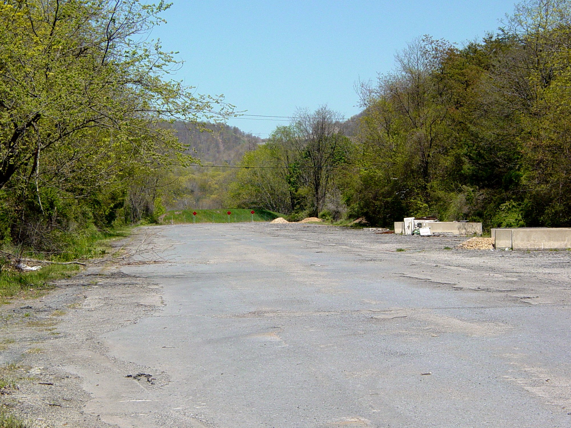 The end of the remaining PTC-owned stub of the Abandoned Pennsylvania Turnpike following the demolition of a bridge over US 30. Photo taken May 2, 2006 by Ben Schumin.